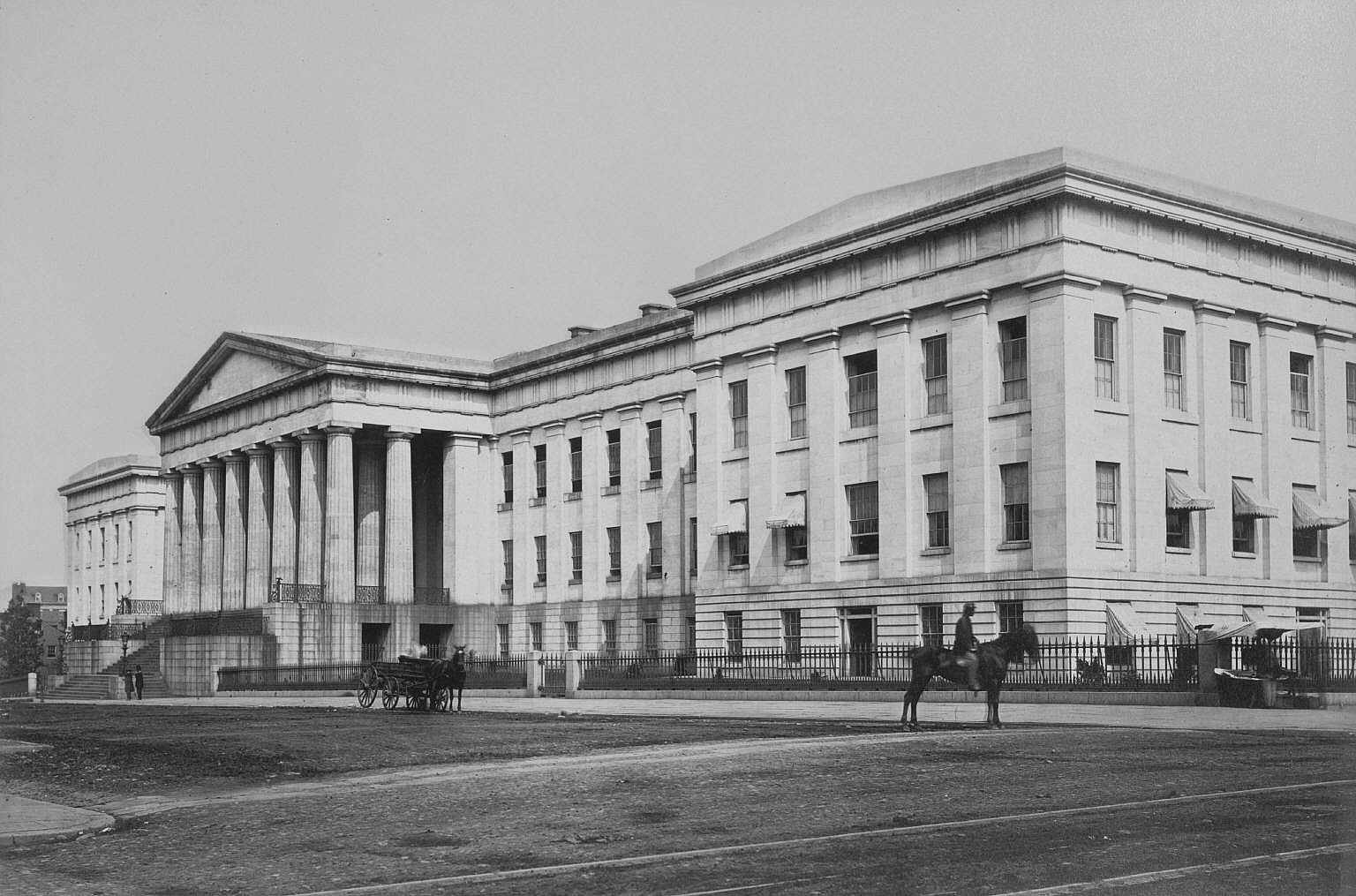 Collection: A. D. White Architectural Photographs, Cornell University Library Accession Number: 15/5/3090.00242 Title: U. S. Patent Office Architect: William P. Elliot Photograph date: ca. 1867-ca. 1877 Building Date: 1836-1867 Location: North and Central America: United States; District of Columbia, Washington Materials: albumen print Image: 9 1/8 x 13 3/4 in.; 23.1775 x 34.925 cm Provenance: Transfer from the College of Architecture, Art and Planning Persistent URI: There are no known U.S. copyright restrictions on this image. The digital file is owned by the Cornell University Library which is making it freely available with the request that, when possible, the Library be credited as its source. We had some help with the geocoding from Web Services by Yahoo!